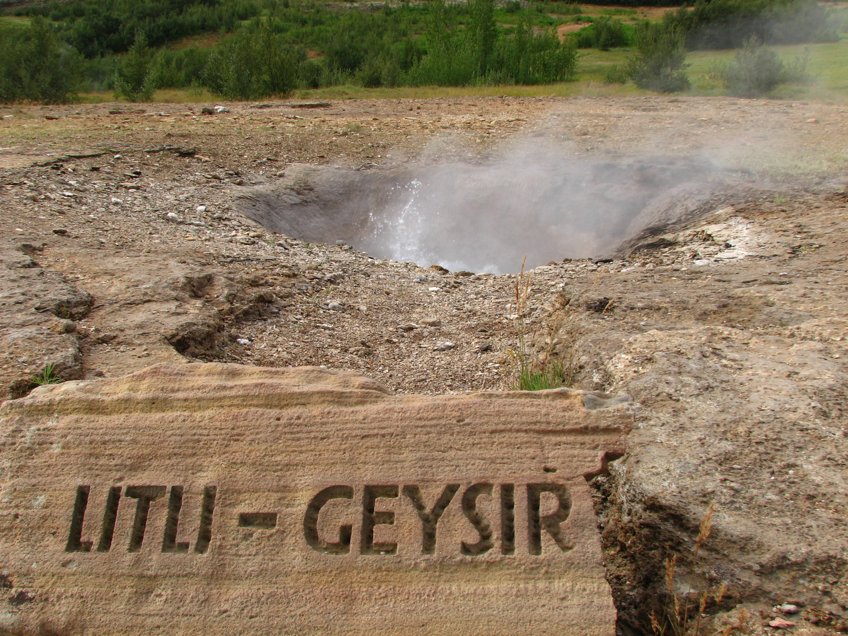 Golden Circle, Haukadalur, geyser, litli-geysir, bubble, boil, road trip, 2008-08 -- Iceland 1st Anniversary Trip